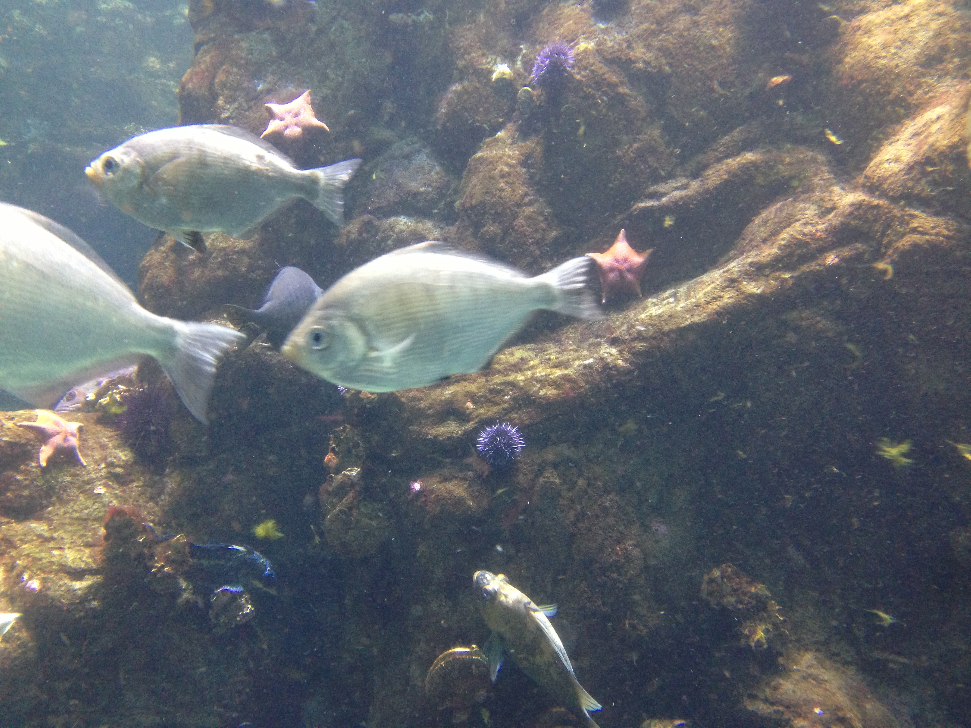 California Academy of Sciences - Steinhart Aquarium